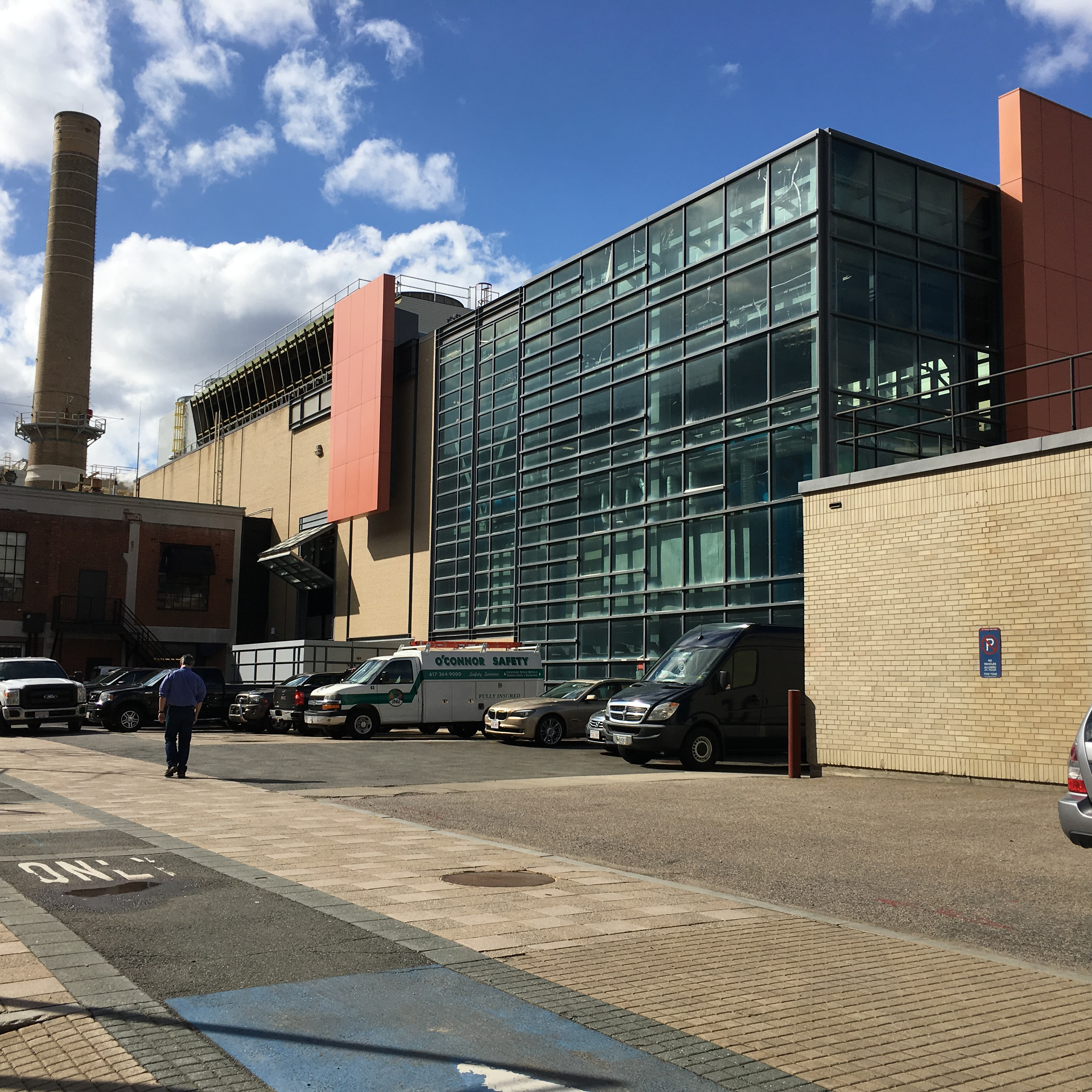 MIT Central Utilities Plant (Building 42) a cogeneration facility opened in 1995.